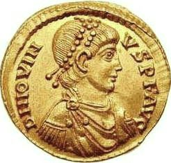 Jovinus. AV Solidus. Arles mint. DN IOVINVS PF AVG, Pearl-diademed, draped, and cuirassed bust right. RIC 1708.